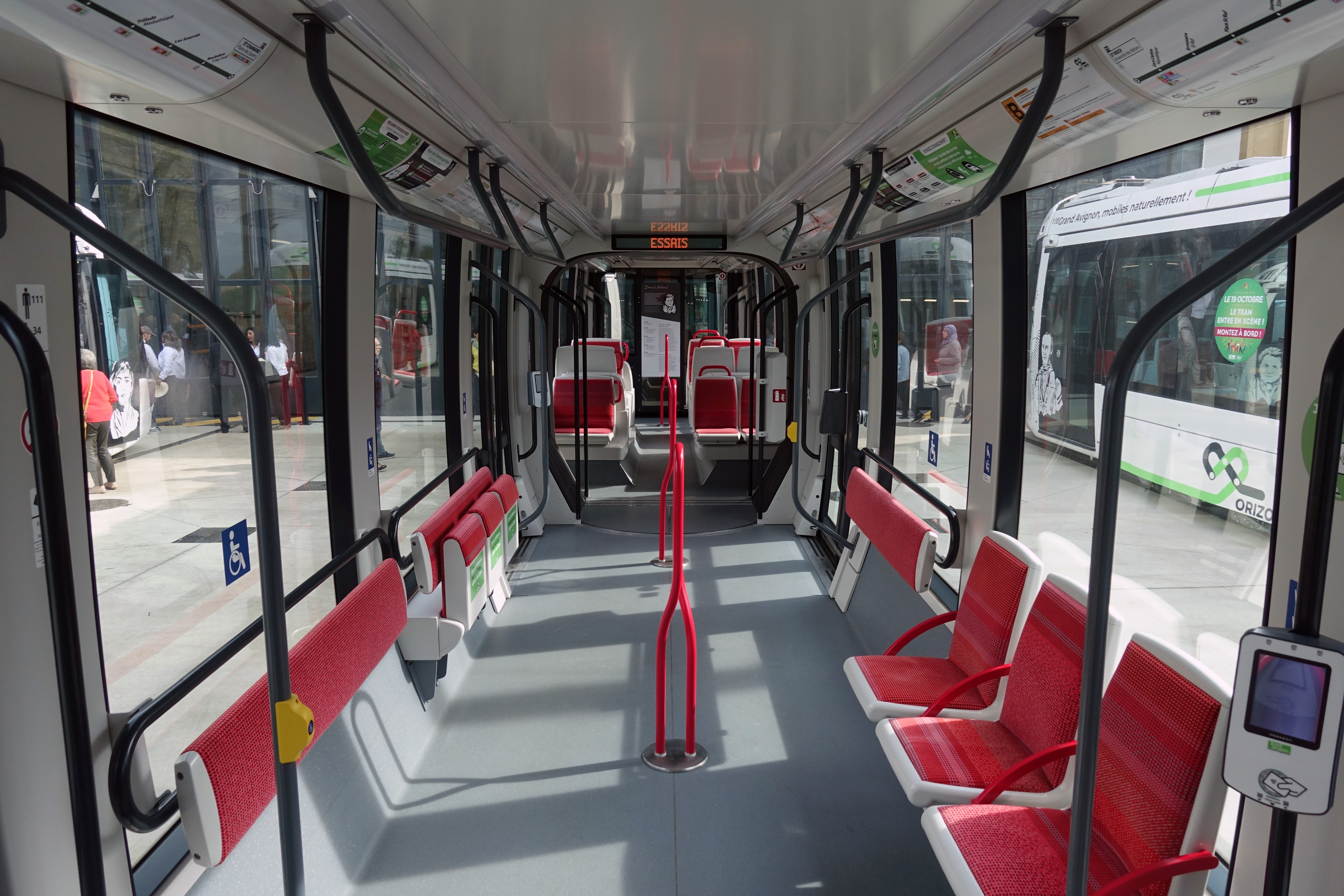 Interiors of Alstom Citadis Compact in Avignon